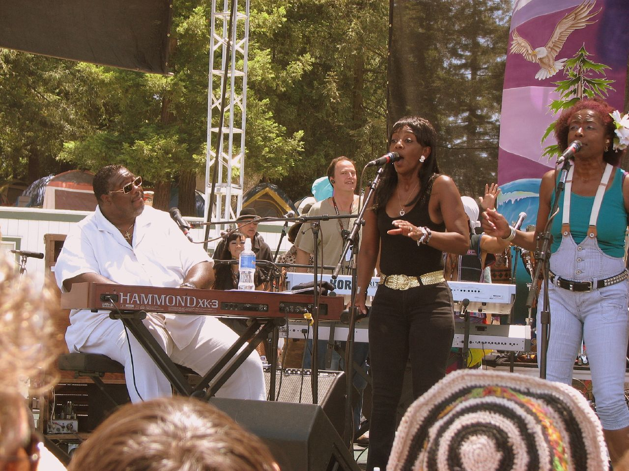 Melvin Seals & JGB -- 2008 Harmony Festival, Santa Rosa, CA